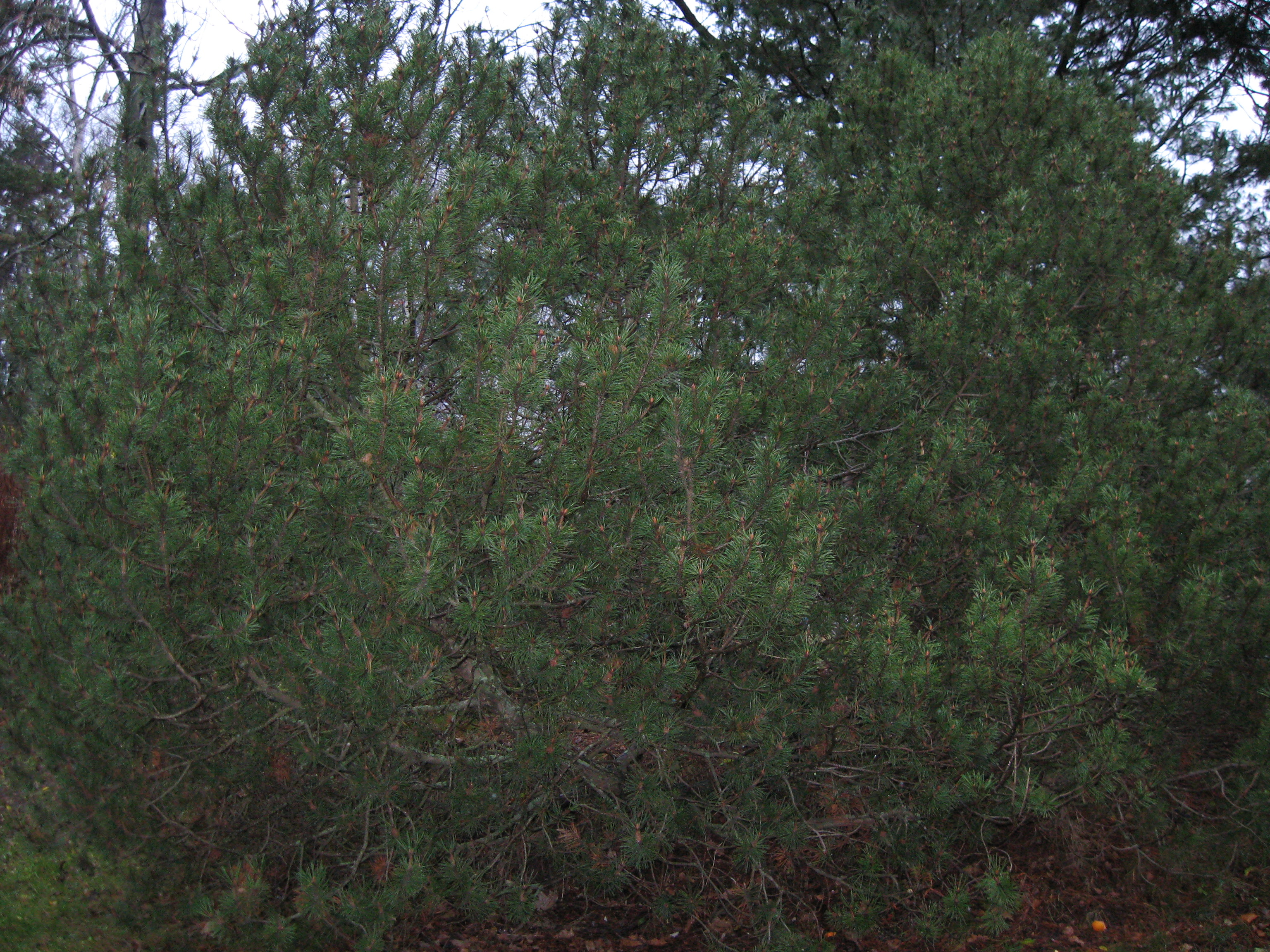 Pinus mugo